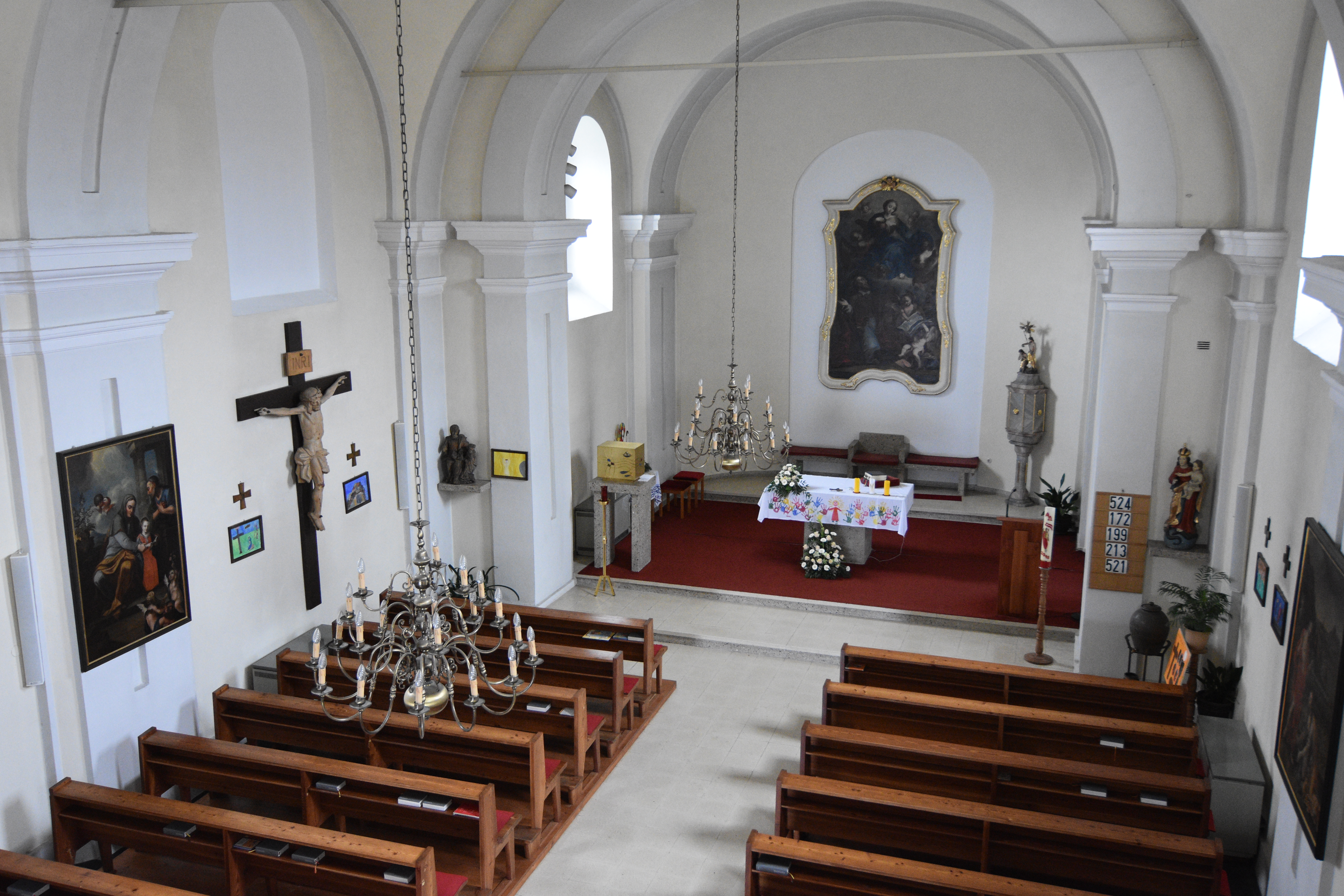 Church Bocksdorf - Interior